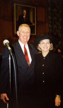 Congressman Dan Burton with Indiana State Auditor Connie Nass